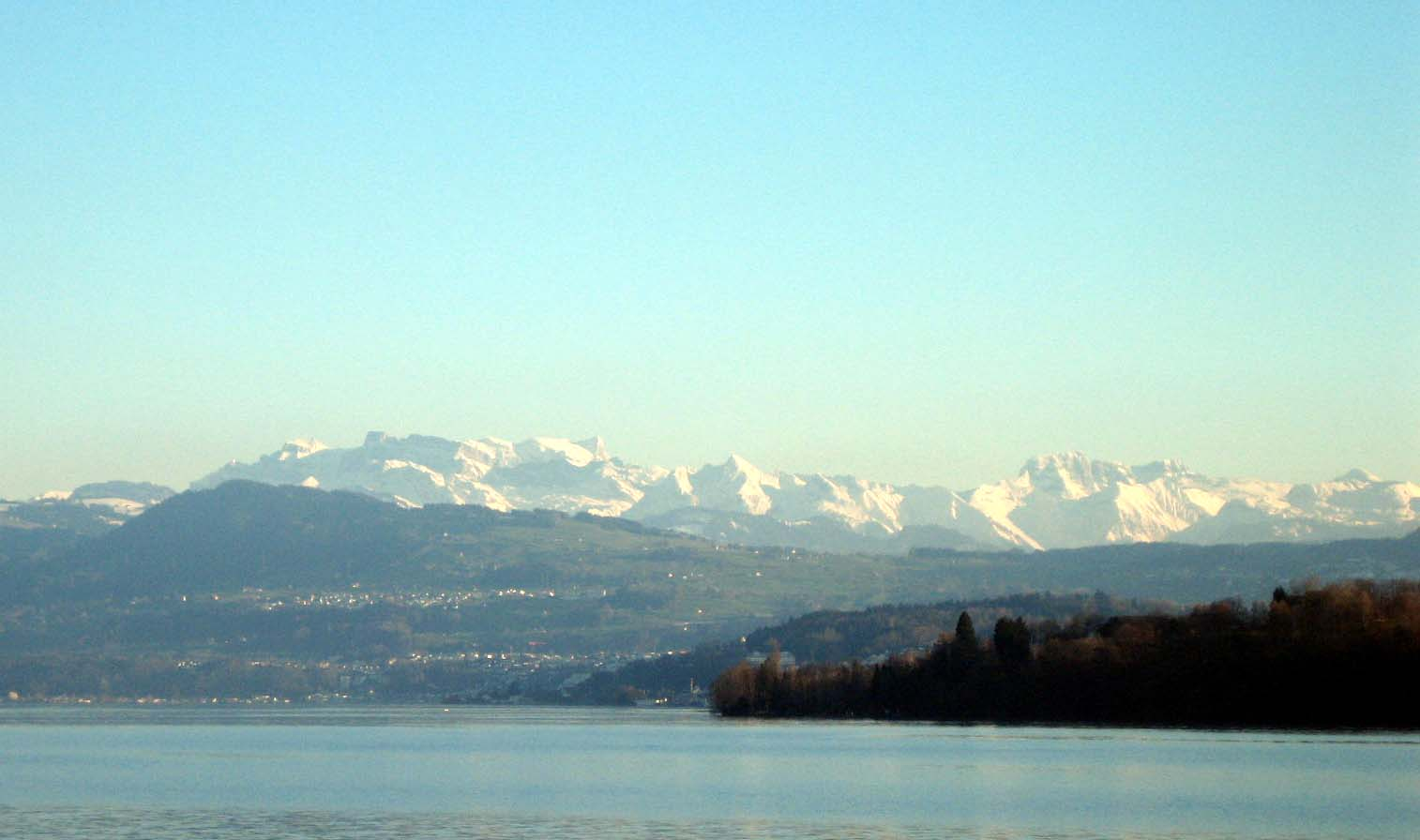 Glarner Alpen (Switzerland) behind Lake Zürich and Etzel (1098 m) – from left: Vrenelisgärtli (2904 m), Ruchen (2901 m), Bächistock (2914 m), the three peaks of Fluebrig/Fluhberg (2092 m), Bös Fulen (2801 m), Fulen (2726 m) and Pfannenstock (2572 m) to the far right.